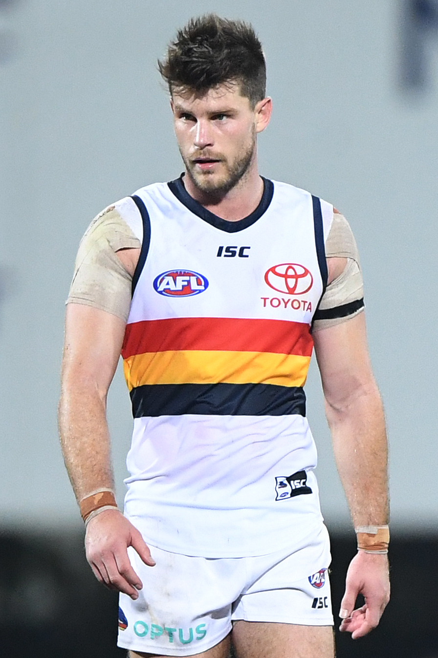 Bryce Gibbs of Adelaide during the 2019 AFL round 11 match between Melbourne and Adelaide at TIO Stadium on Saturday, 1 June 2019 in Darwin, Northern Territory.